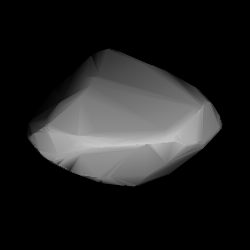 3D convex shape model of 1186 Turnera, computed using light curve inversion techniques. J. Hanuš, J. Ďurech, M. Brož, B. D. Warner (June 2011). "A study of asteroid pole-latitude distribution based on an extended set of shape models derived by the lightcurve inversion method". Astronomy and Astrophysics 530: A134. ISSN 0004-6361. arXiv